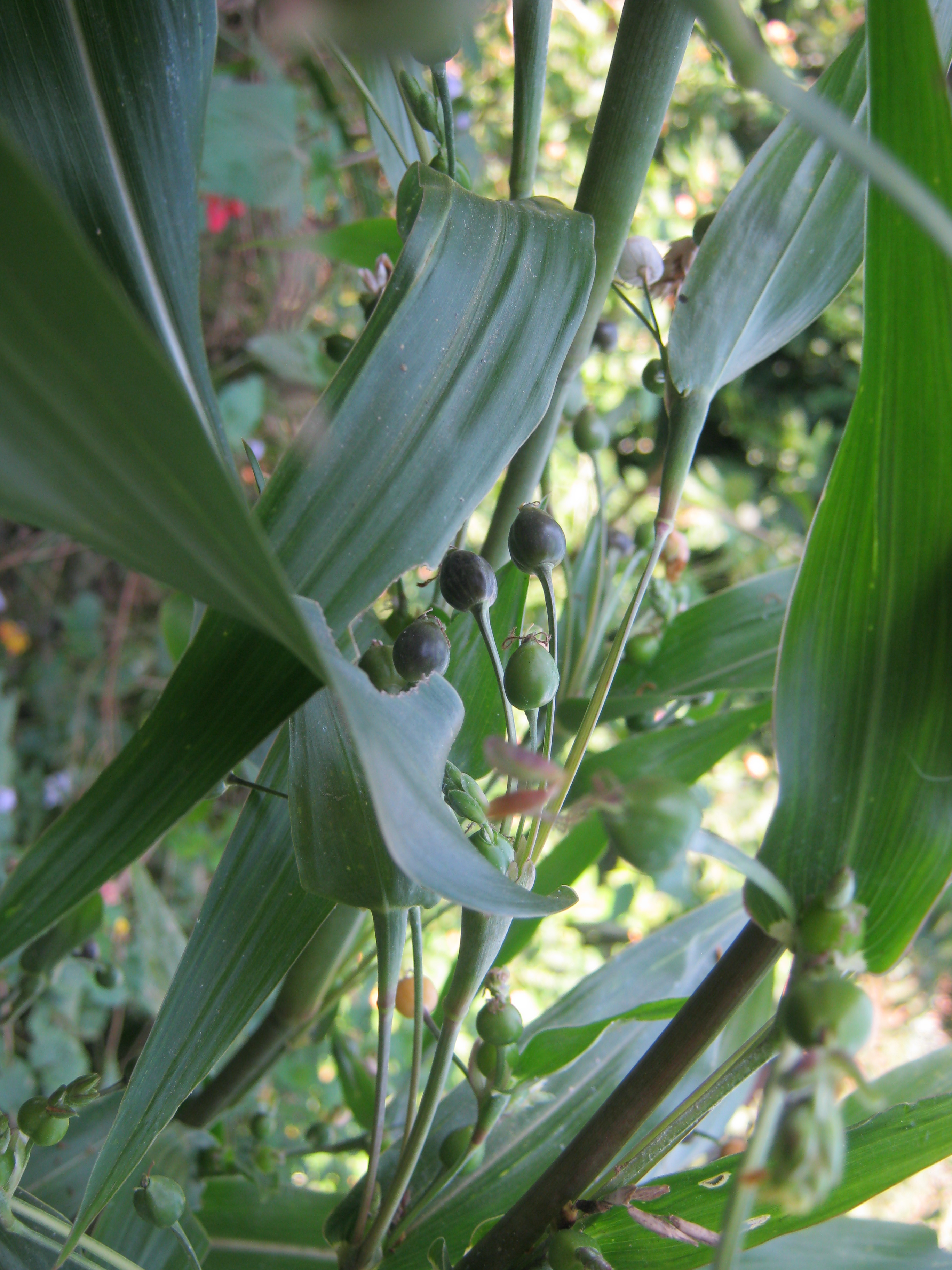 A monocot plant of Nepal. Its seed used as beads.